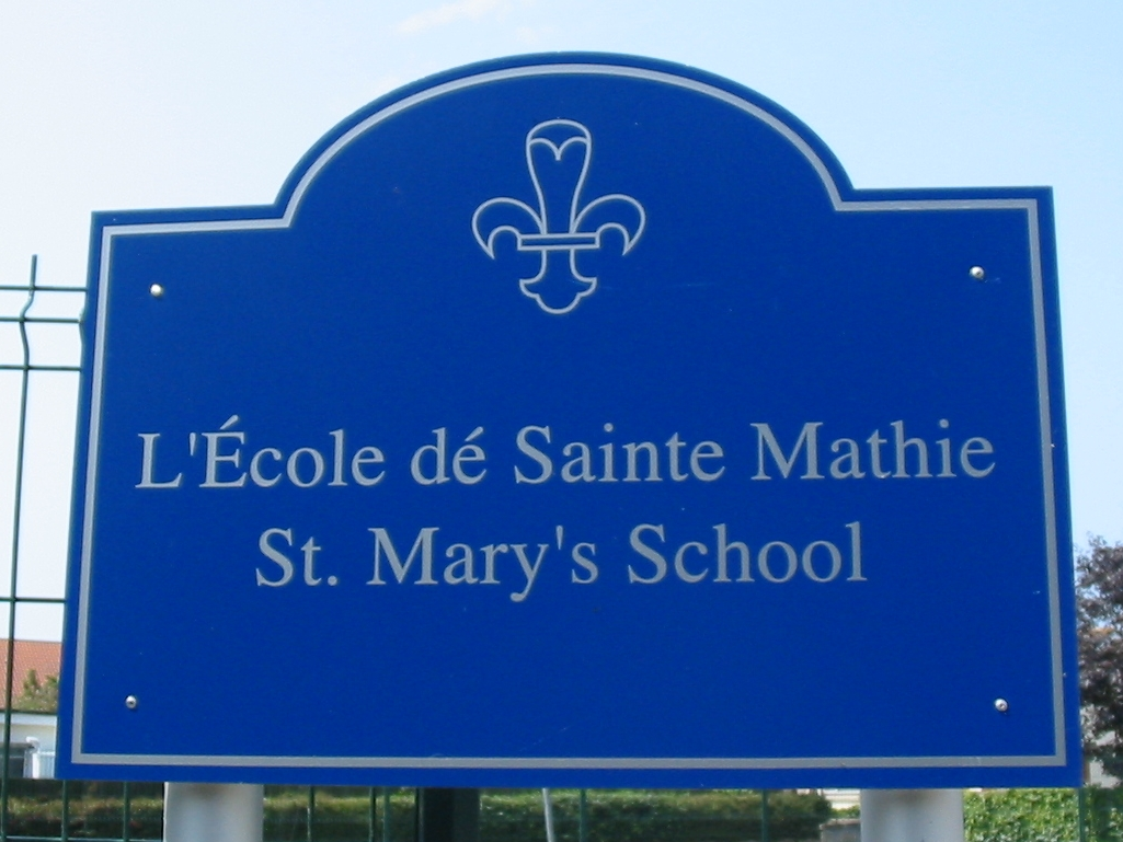 St. Mary's School (primary), Jersey, bilingual sign English and Jèrriais